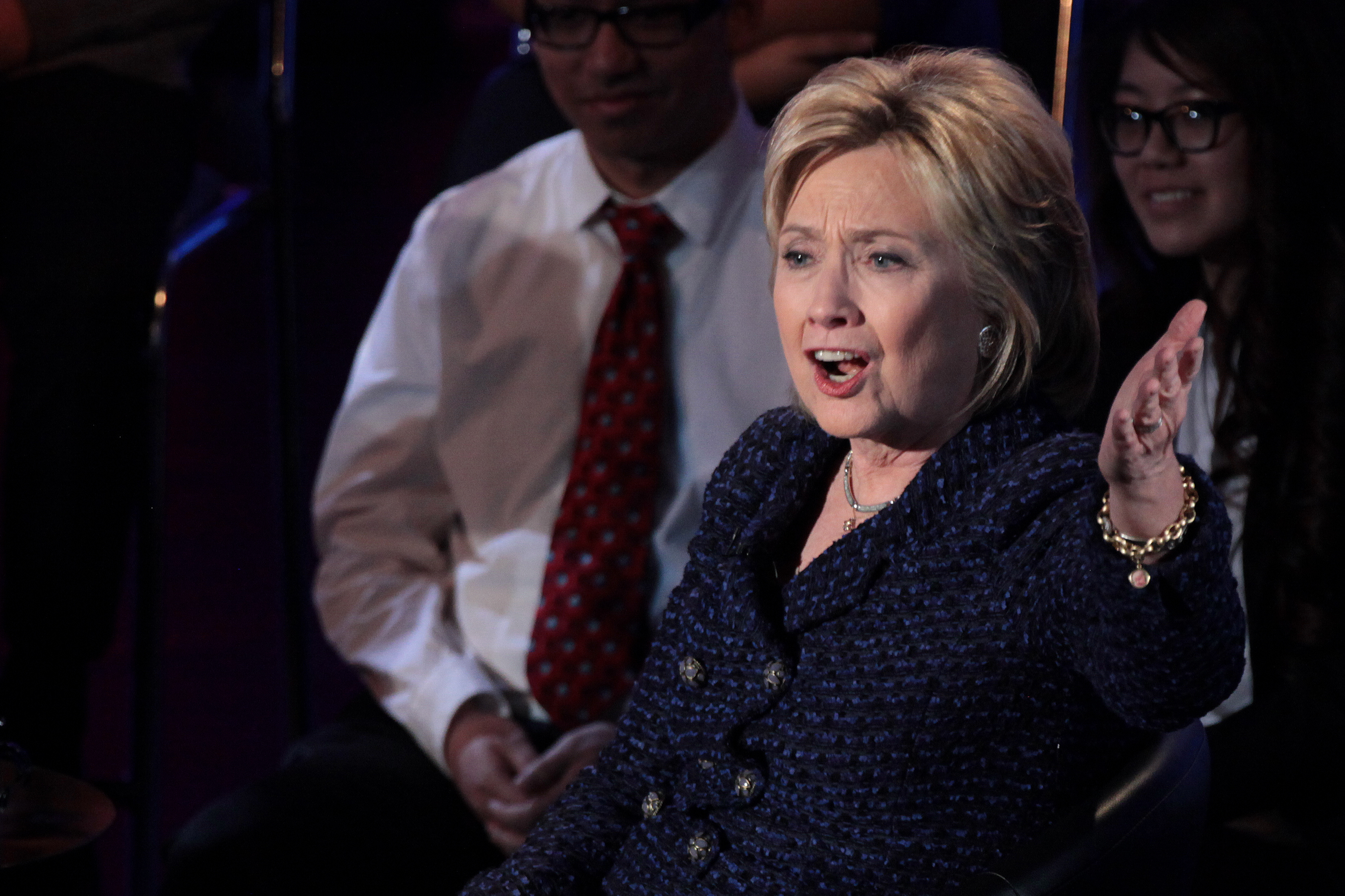 Former Secretary of State Hillary Clinton speaking at the Brown & Black Presidential Forum at Sheslow Auditorium at Drake University in Des Moines, Iowa.